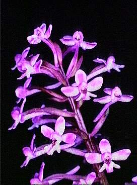 Sicilian botanical endemisms Orchis brancifortii